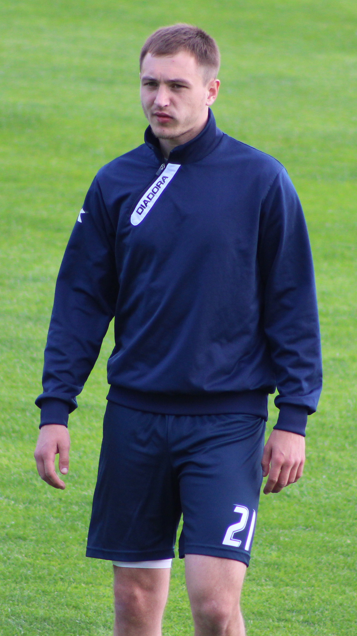 Oleksandr Muzyka